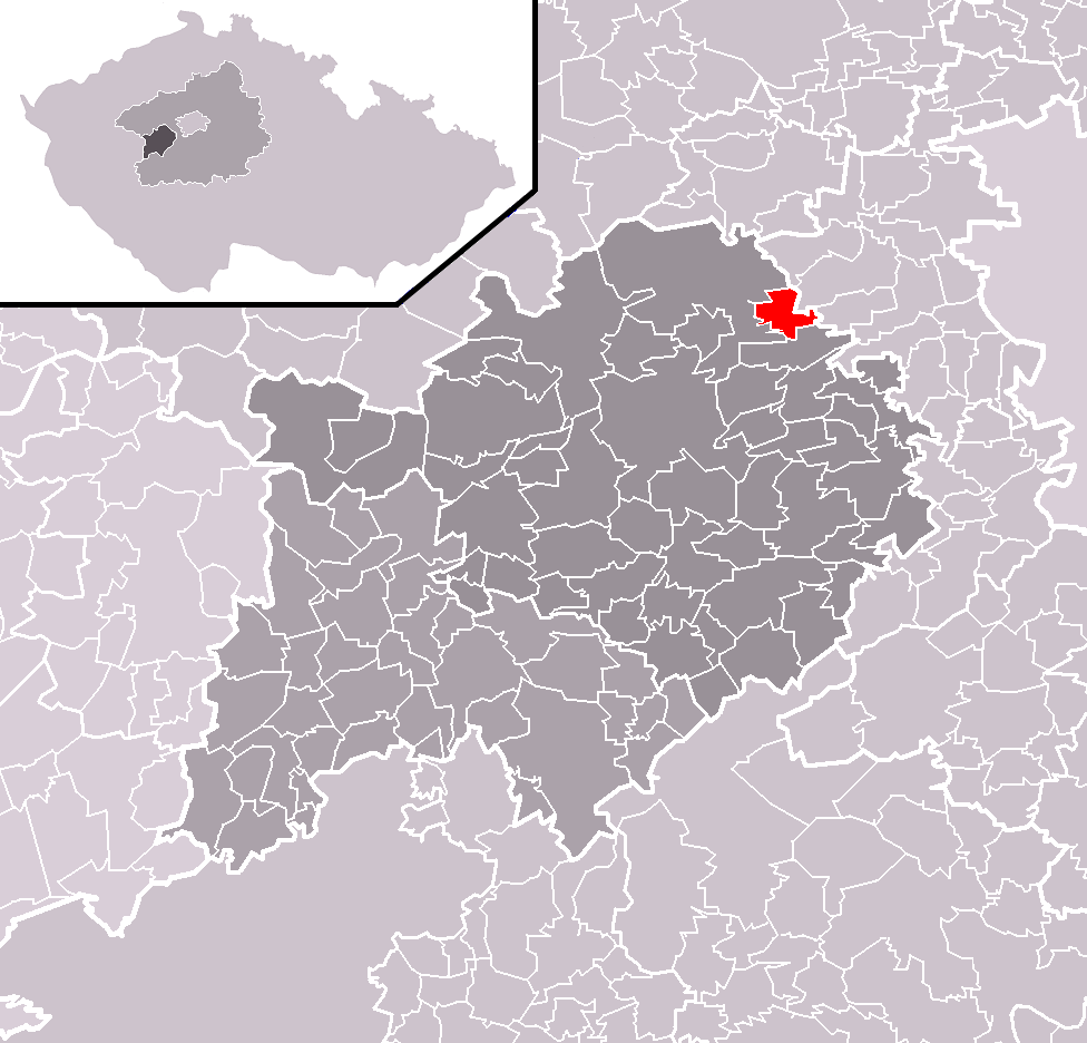 Location of Nenačovice municipality within Beroun District and administrative area of Beroun as a Municipality with Extended Competence.